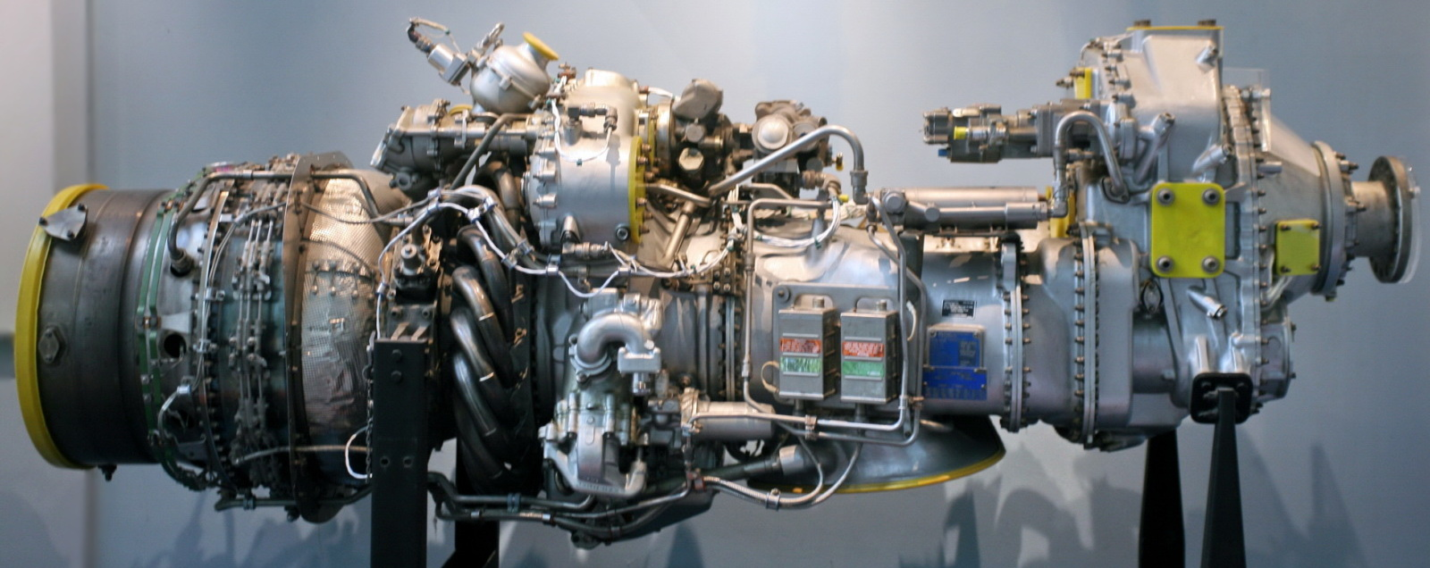 A Pratt & Whitney Canada PW123 turboprop engine.